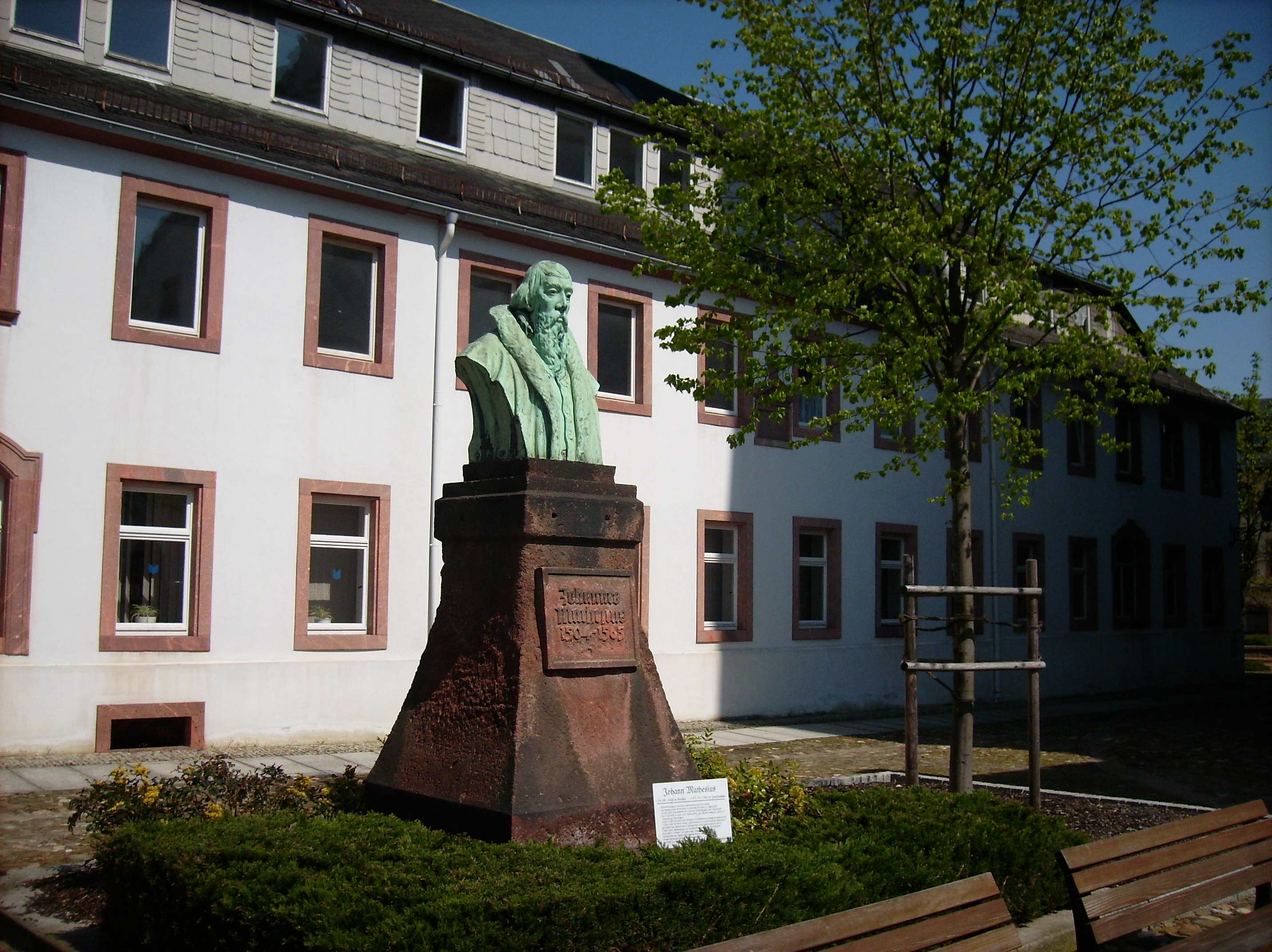 Memorial to Johann Mathesius near St. Cunegunde Church in Rochlitz (Mittelsachsen district, Saxony)